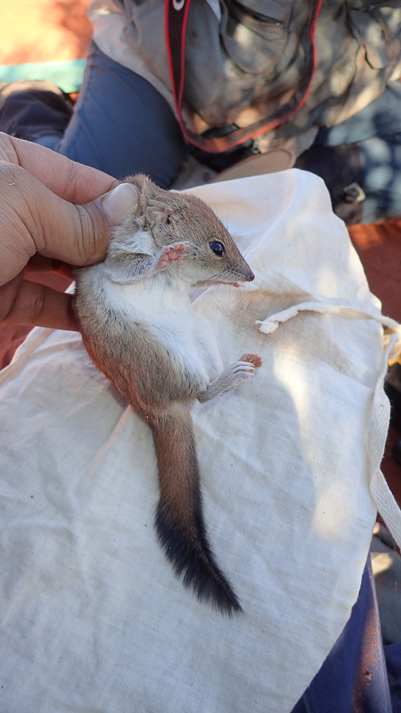 Mulagra held to show crest on tail, Simpson Desert. Photo credit: Bobby Tamayo